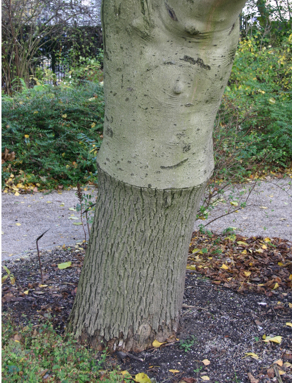 Fraxinus ornus grafted on Fraxinus excelsior rootstock. Note the different bark texture of the two species. Hortus Botanicus, Amsterdam.